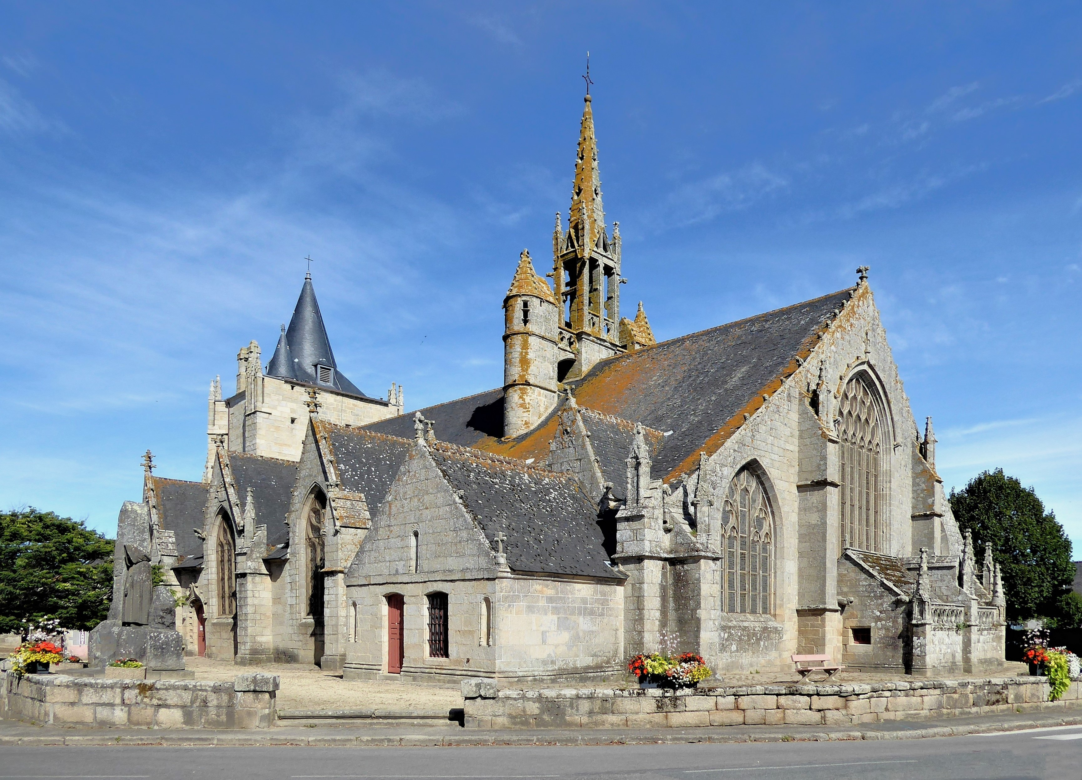 Exterior of Église Saint-Nonna de Penmarc'h